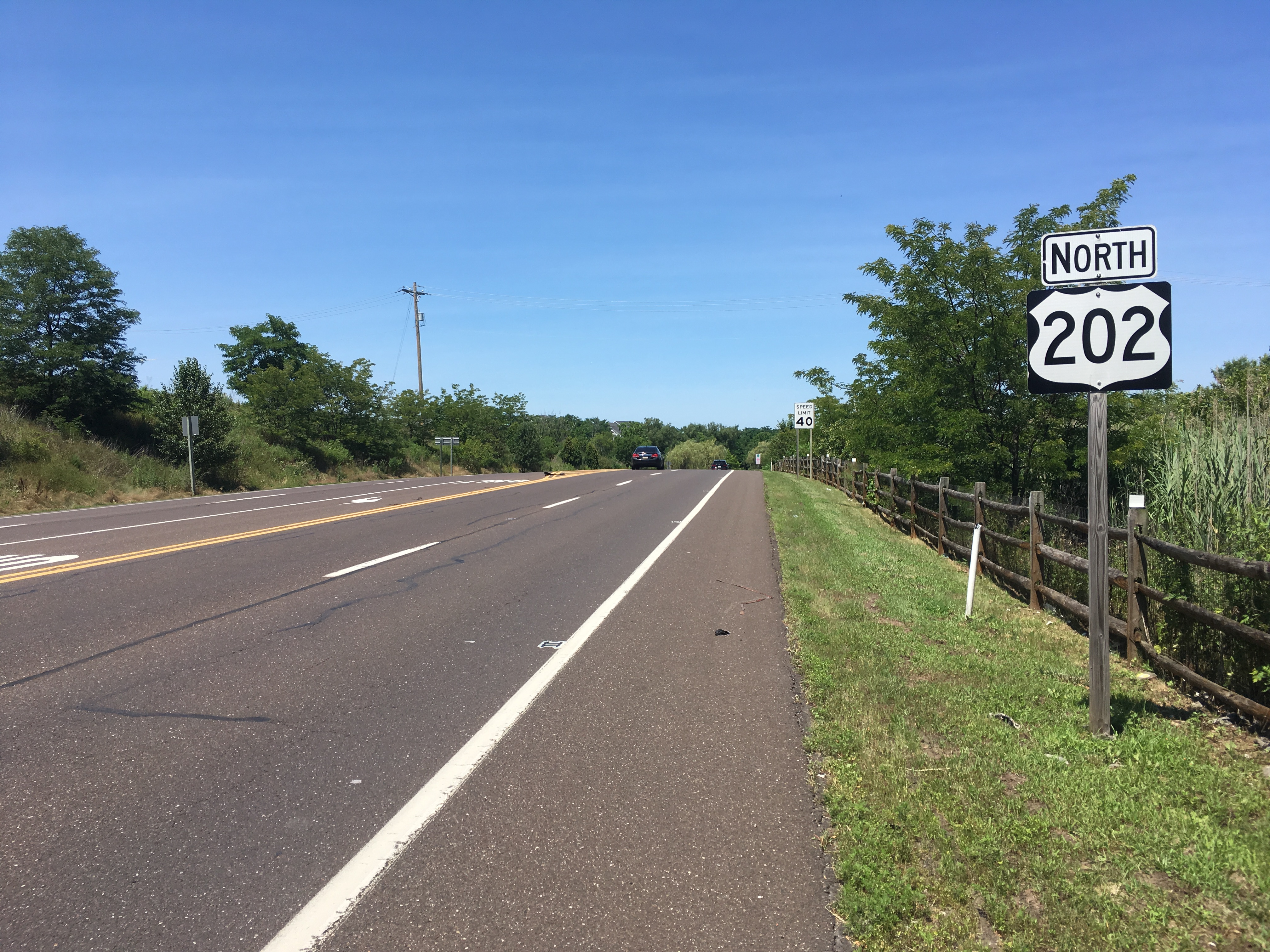 U.S. Route 202 northbound past the intersection with Knapp Road in Montgomery Township, Pennsylvania.